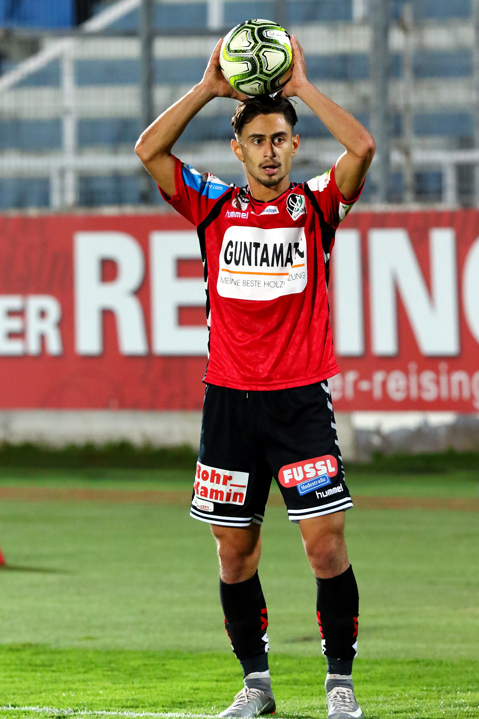 Football-championship Erste Liga 2017–18 - SC Wiener Neustadt (white shirts) vs. SV Ried (red shirts) 1-0. – The photo shows Ilkay Durmus